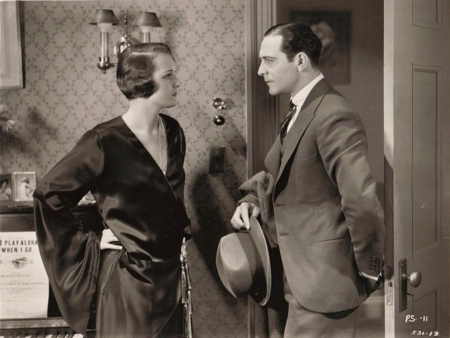 Mary Astor & Ricardo Cortez in Behind Office Doors (1931) - cropped screenshot